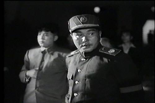 Kim Il-sung and Choi Yong-kun, Funeral of Kim Cheak (1951. 2. 1)